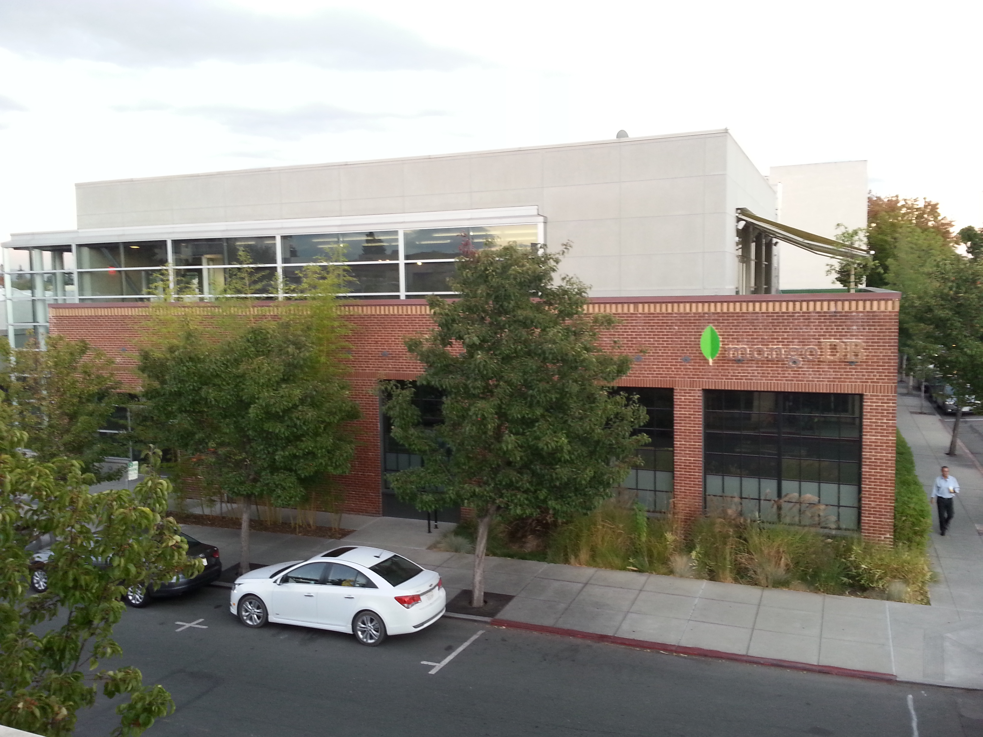 View of the MongoDB Palo Alto Office